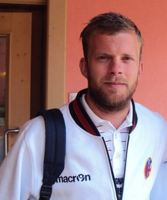 Mikael Antonsson with Bologna FC.